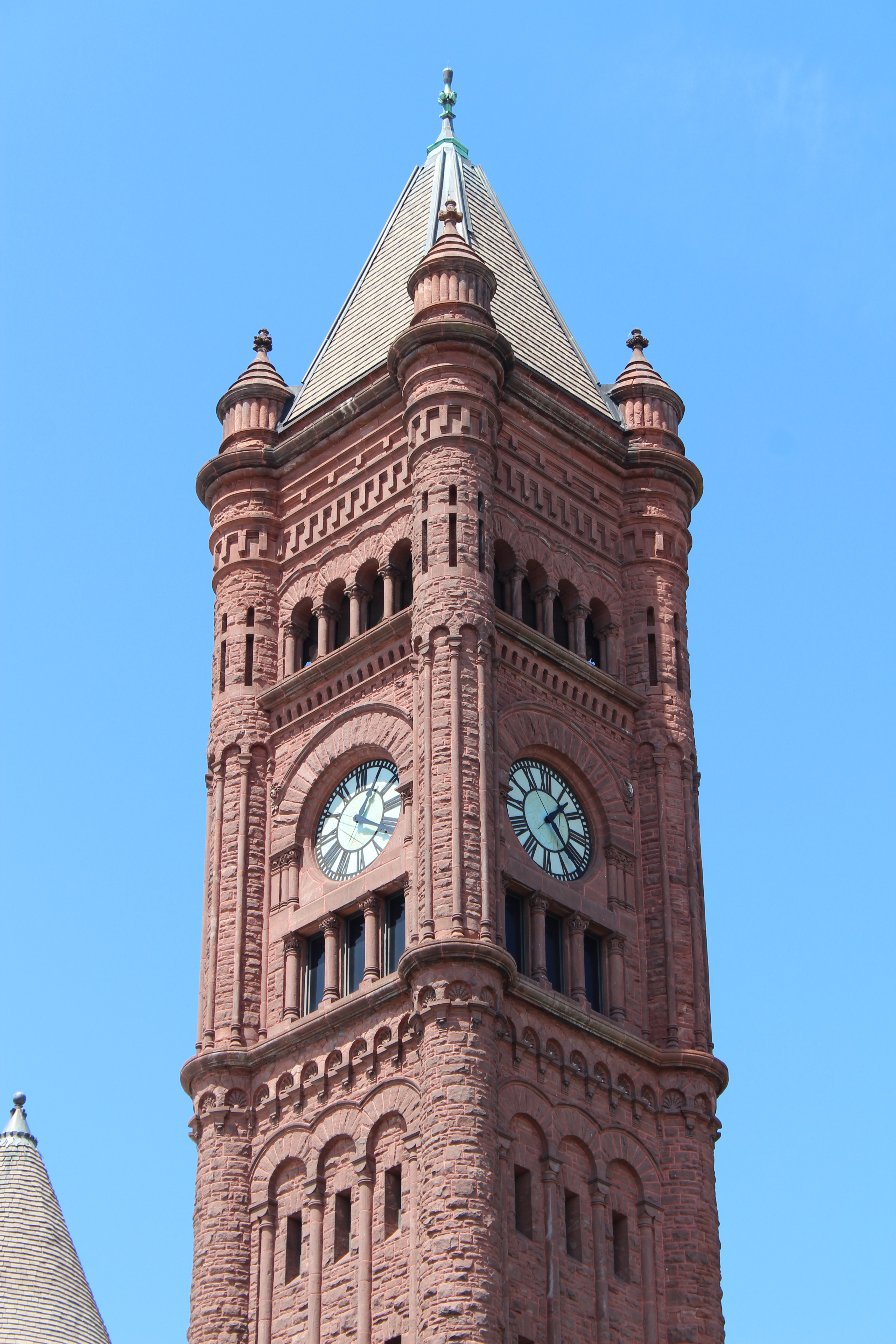 Clock tower of Duluth Central High School in Duluth, Minnesota.